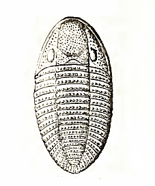 A drawing of Eocyphinium seminiferum, synonym Phillipsia seminiferum